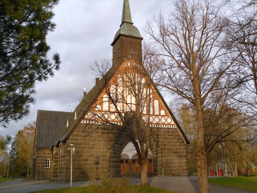 Pomarkku Church in Pomarkku, Finland, was designed by architect Ilmari Launis and built in 1914–1921.